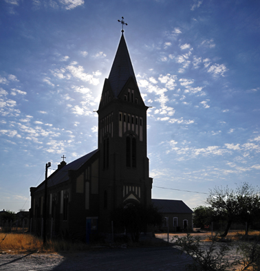 Church in Karibib, architect Gottlieb Redecker inaugurated, 1910